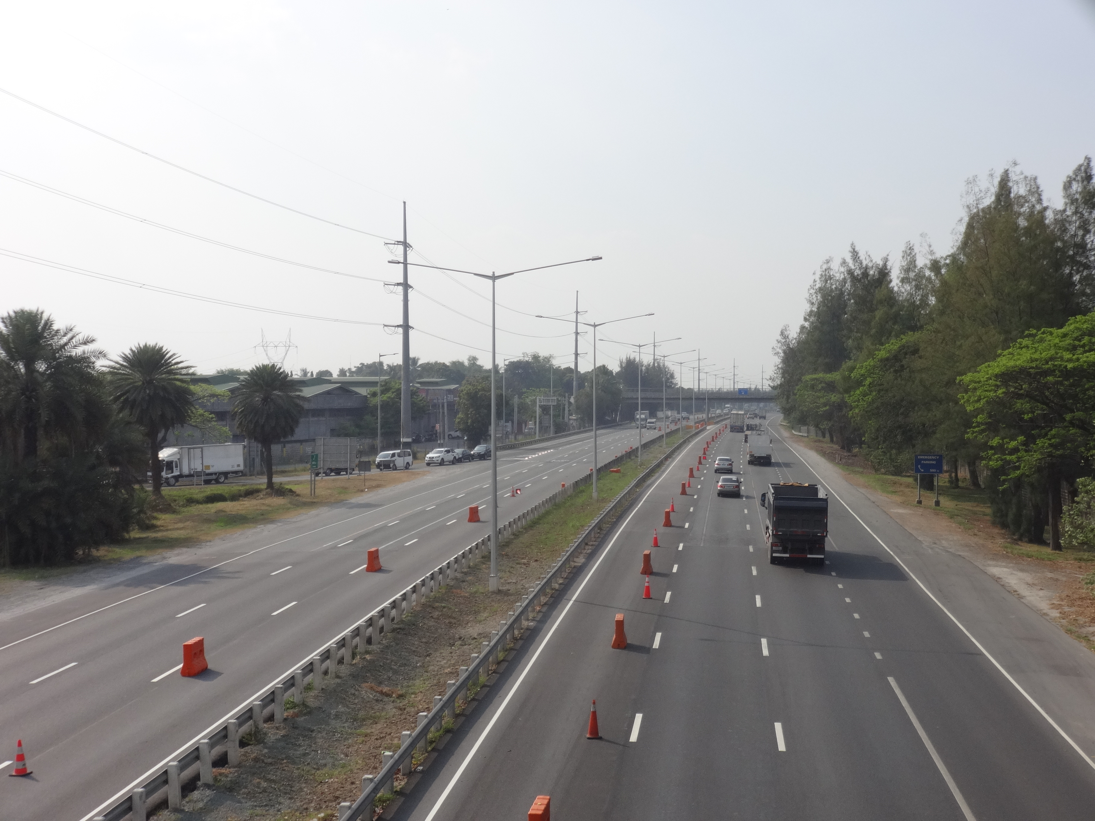 North Luzon Expressway (NLEX) in Santa Rita, Bulacan. This portion of the toll road up to Dau was built in the 1970s as the extension of original North Diversion Road.